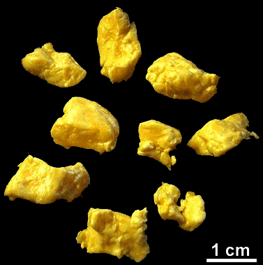 Cheese curds with a scale measure